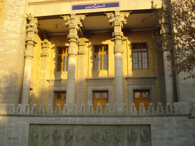 MFA of Iran from the time of rezaa shah